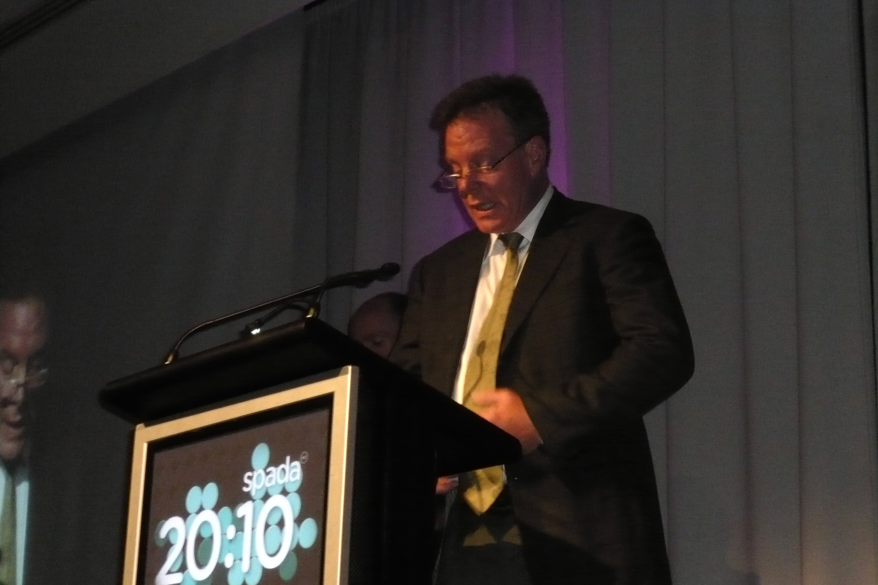 Rob Tapert speaking after receiving an award at SPADA 2010